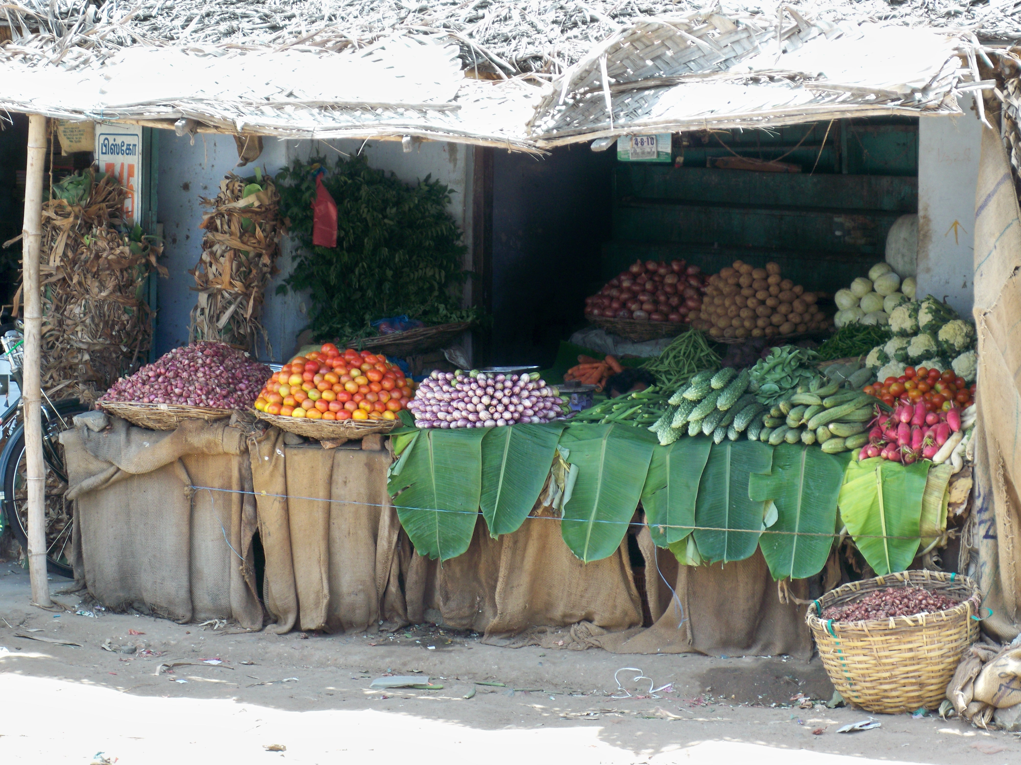 Vegetable shop in Rural area, Chinna Dharapuram, Western Tamil Nadu India